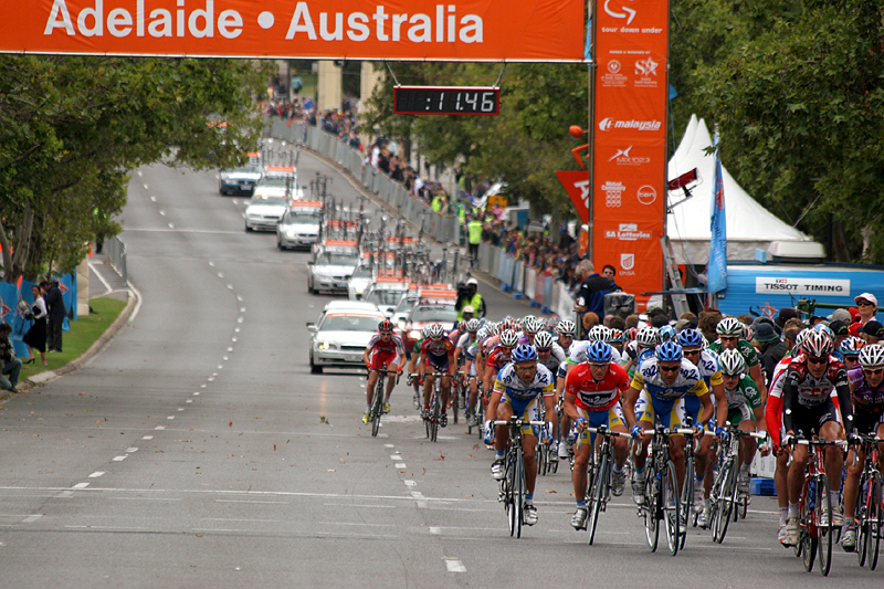 2007 Tour Down Under